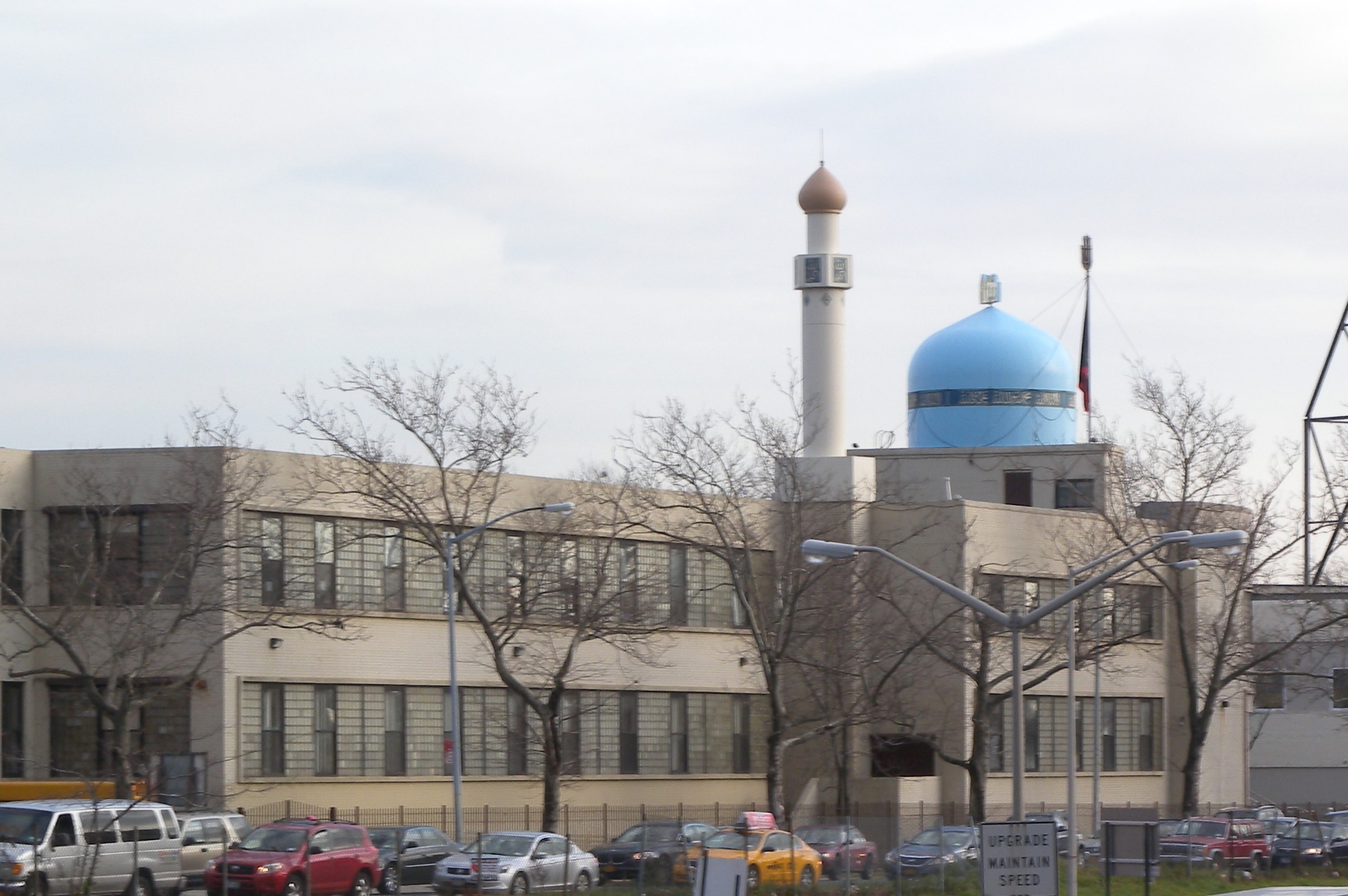 Looking southeast, full zoom, across Van Wyck Expressway at Shi'ite mosque on a mostly cloudy afternoon. ZIP 11435.